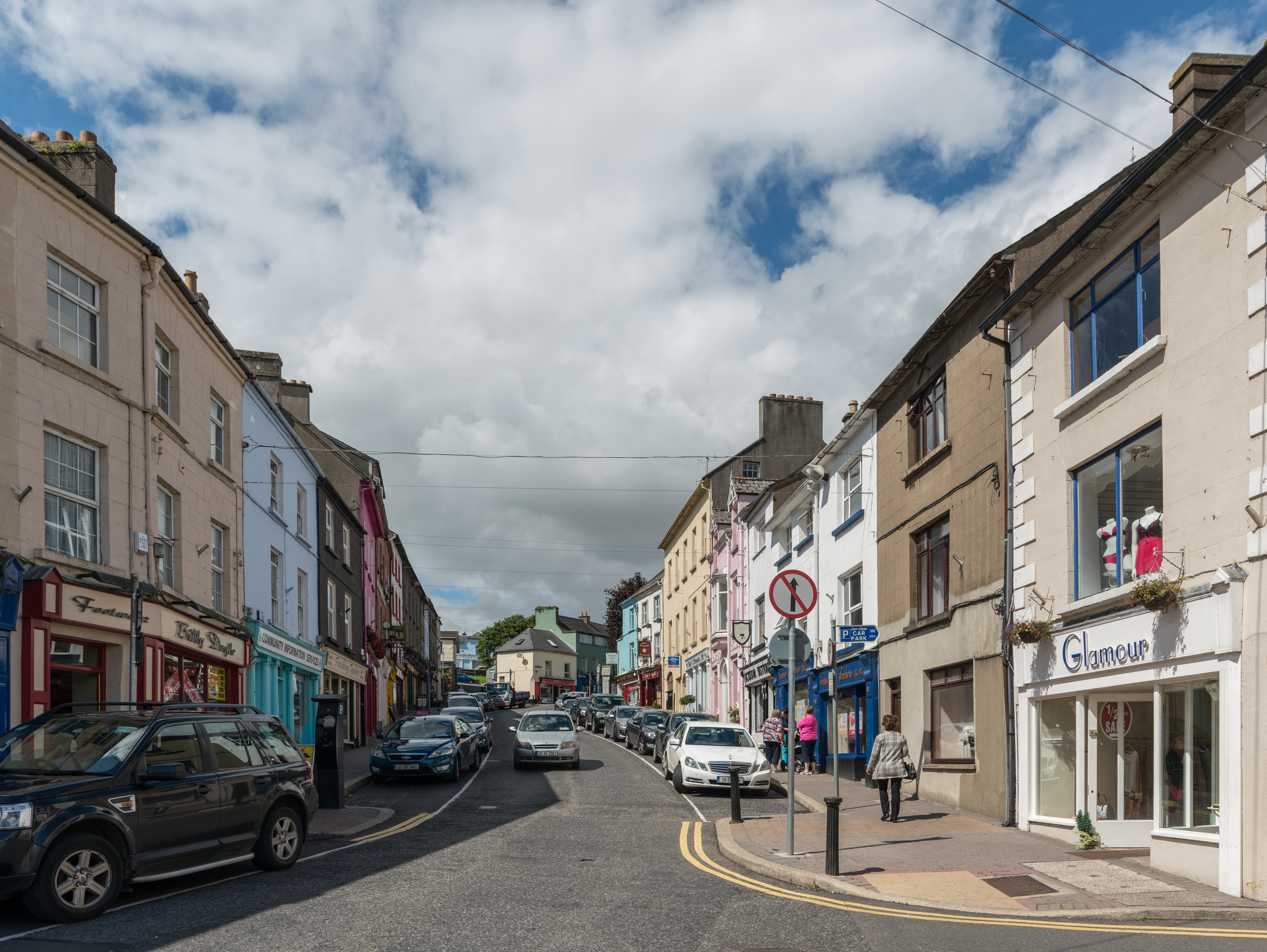 A view of Main Street, Enniscorthy